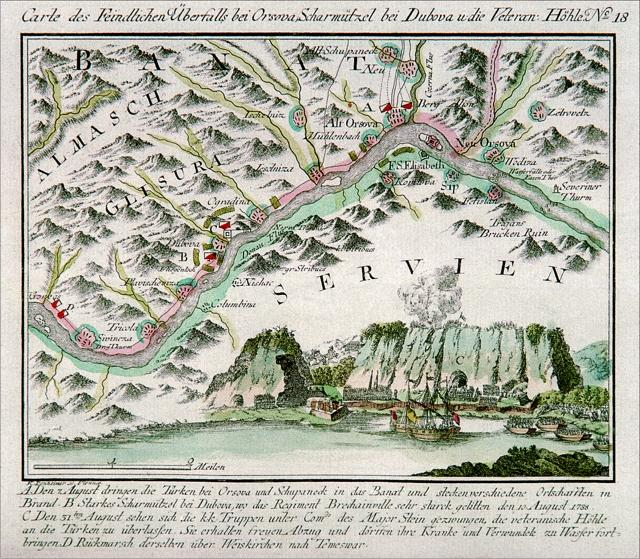 Orșova fortress. Wien, approx 1788